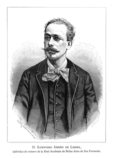 Spanish organist and composer José Ildefonso Jimeno de Lerma (1842-1903)